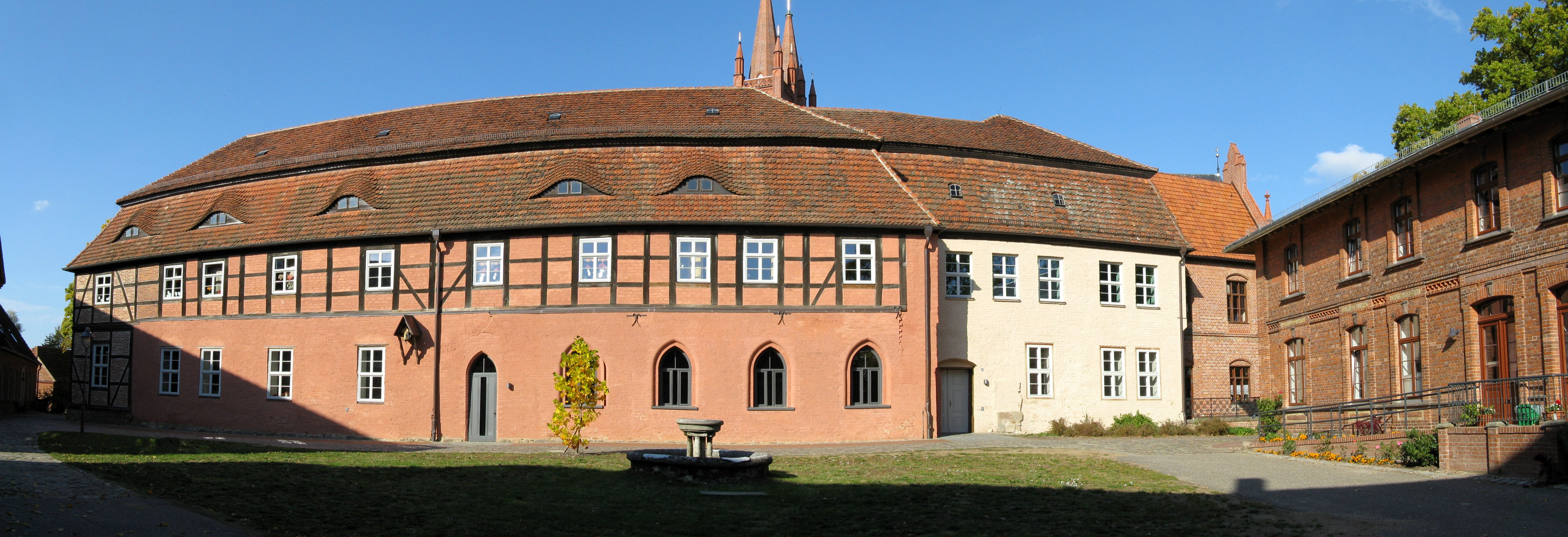 Enclosed religious orders building with Refectory in the Monastery Dobbertin, disctrict Parchim, Mecklenburg-Vorpommern, Germany